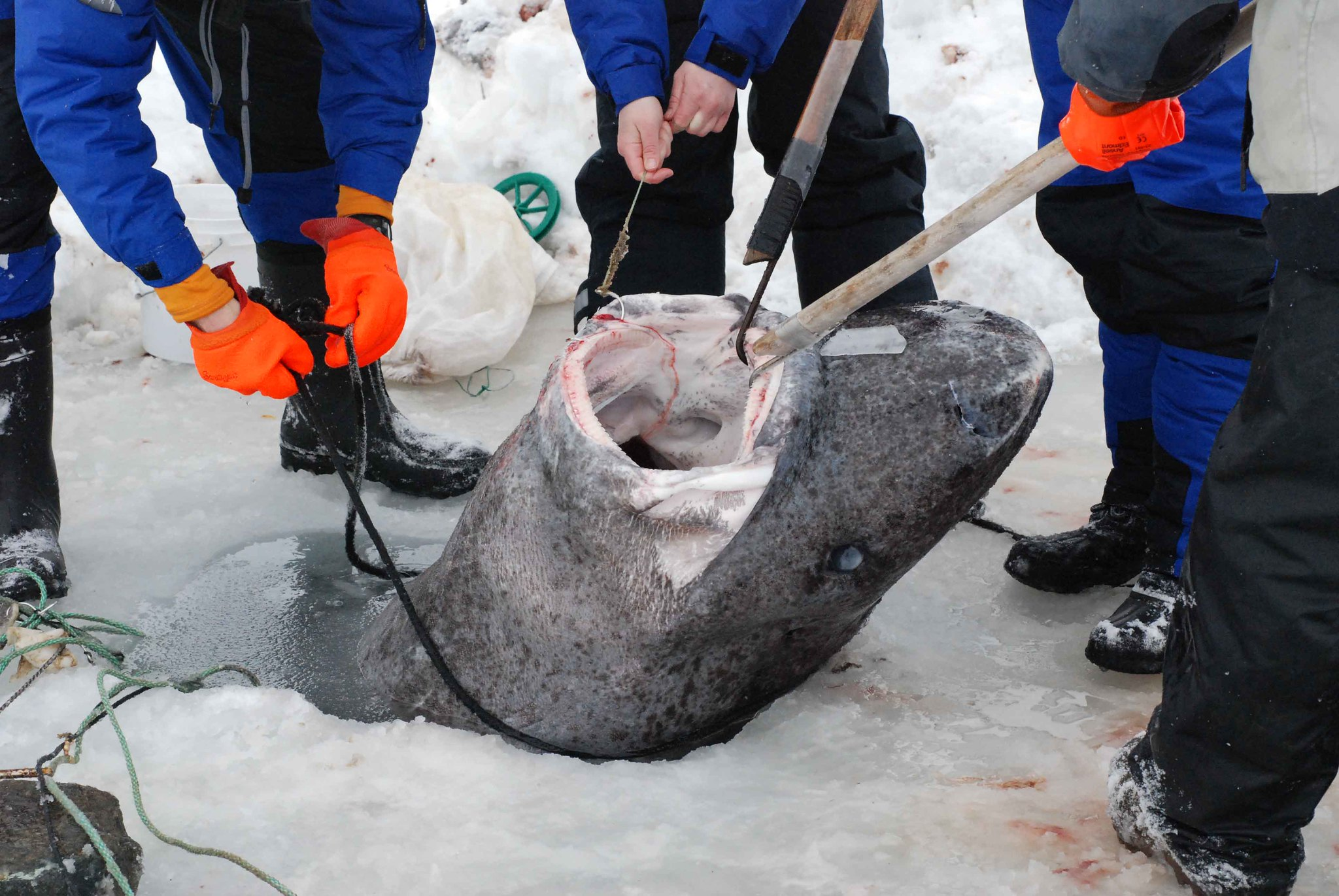 Pulling a ca. 4-metres female Greenland Shark onto the sea ice (shot by S. Dennard)